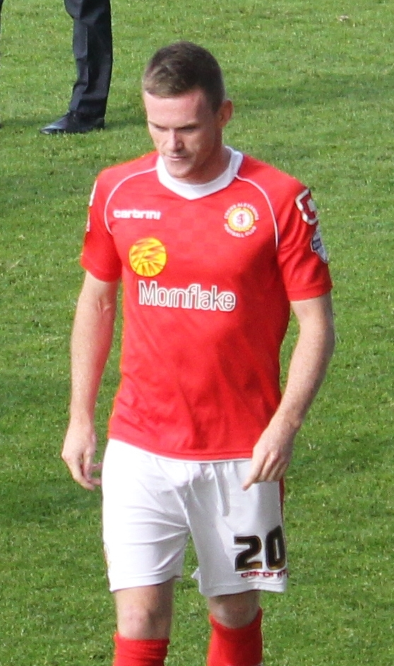 Oliver Turton playing for Crewe Alexandra against Preston North End at Gresty Road, Crewe on 3 May 2014